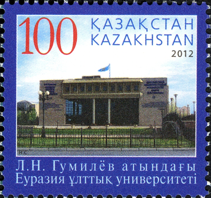 Architecture of Nur-Sultan